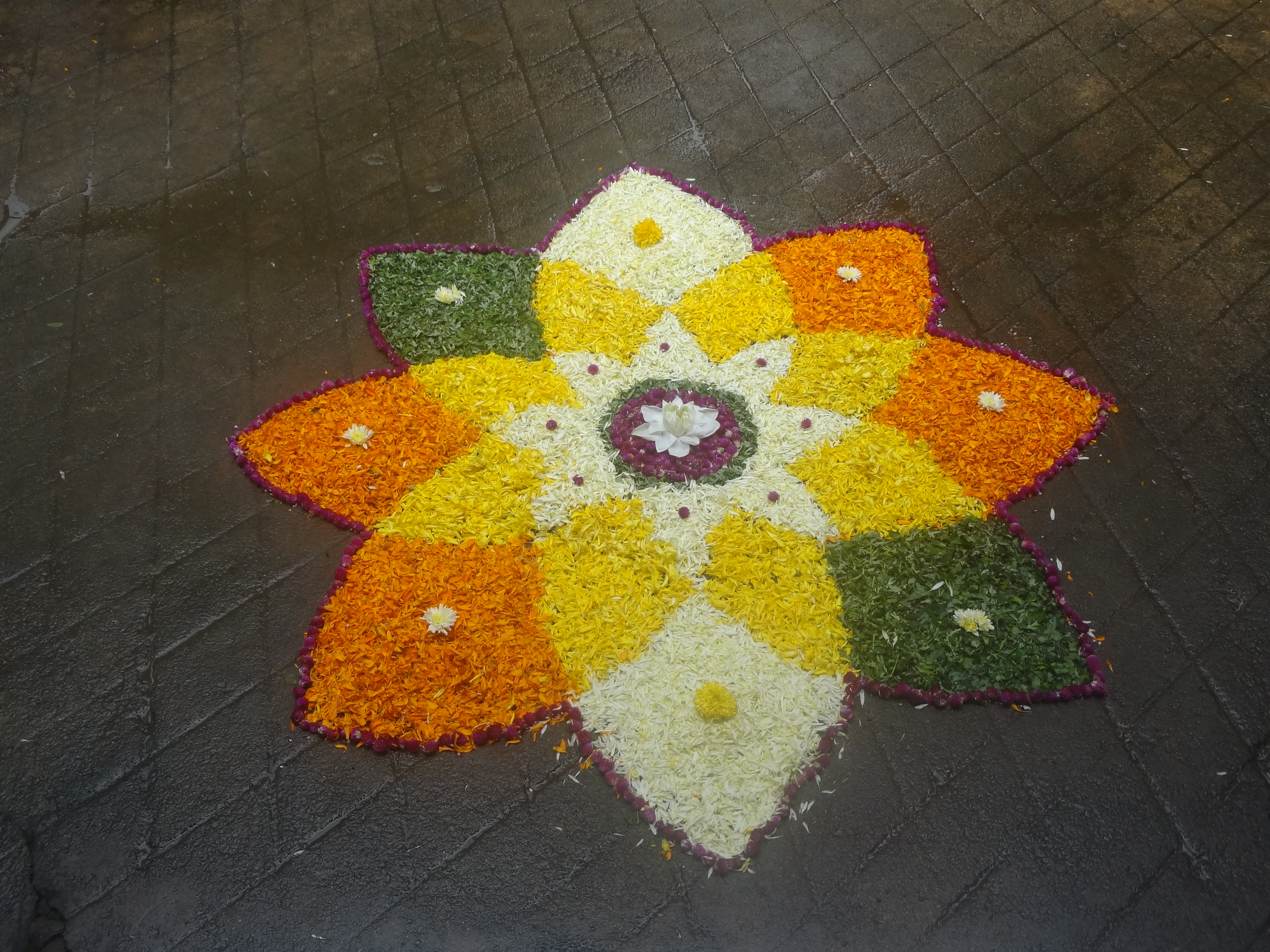 Pookalam (floral carpet)